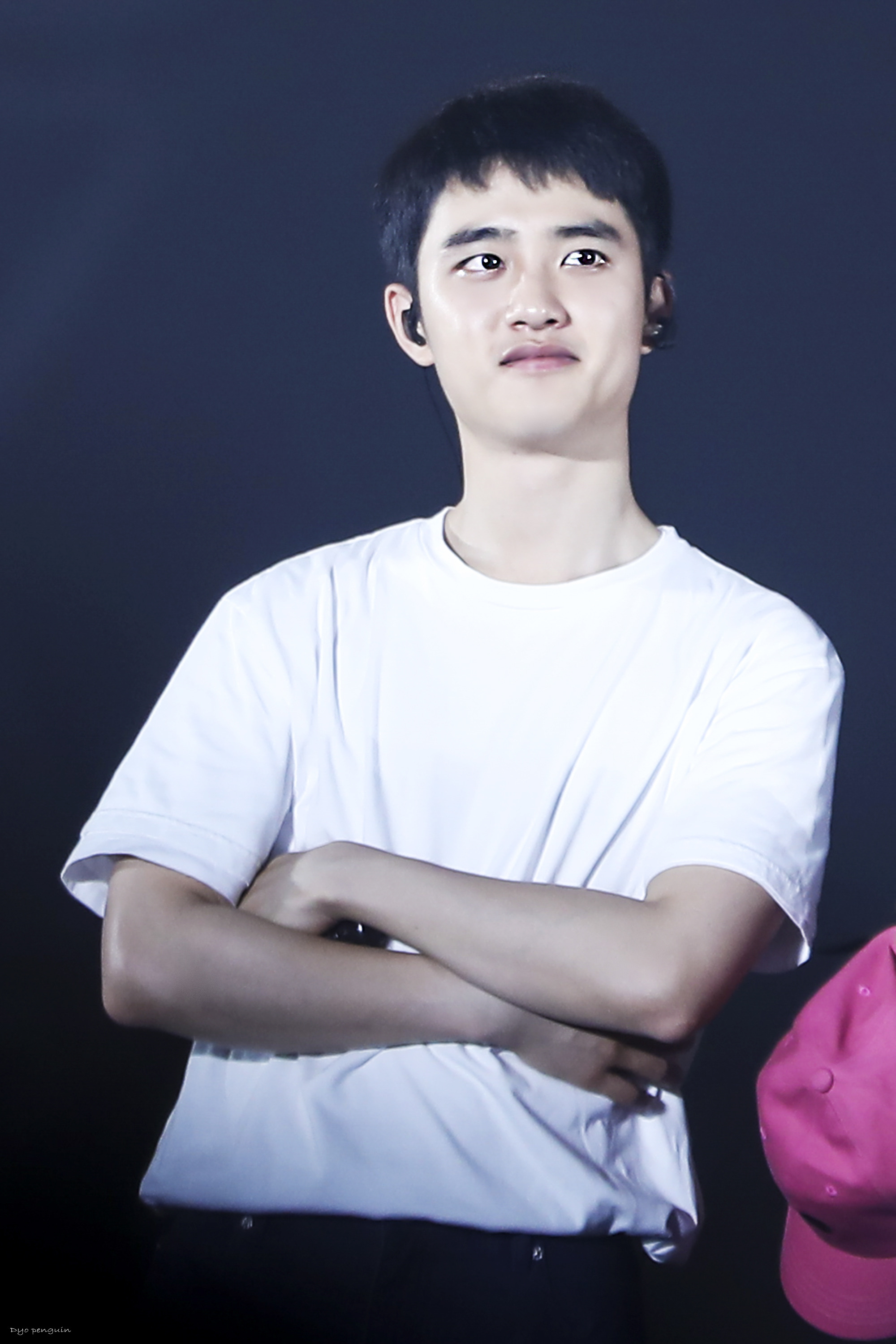 D.O at Exo Planet 4 – The EℓyXiOn in Seoul on July 15, 2018.